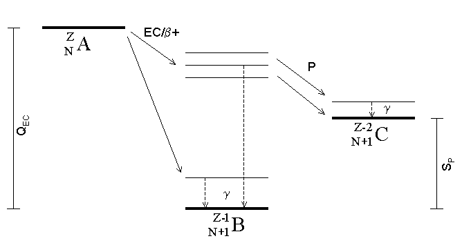 The decay of a proton rich nucleus A with Z protons and N neutrons populates excited states of a daughter nucleus B by β+ emission or electron capture (EC). Those excited states which are lying below the separation energy for protons (Sp) are decaying by γ emission towards the groundstate of daughter B. For the higher excited states a competitive decay channel of proton emission to the granddaughter C exists. This process is called β-delayed proton emission.